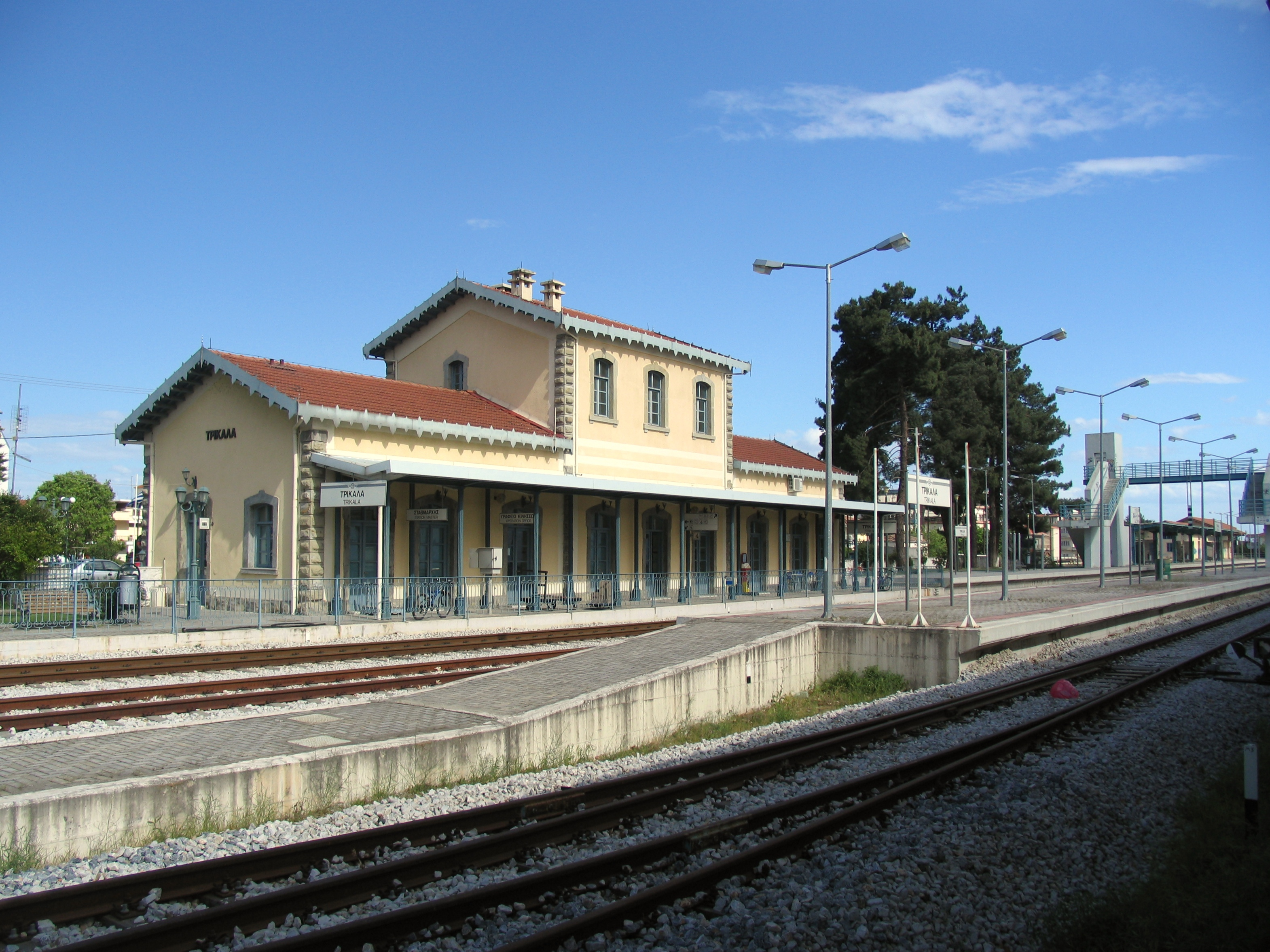 Railway station in the city of Trikala, Greece.